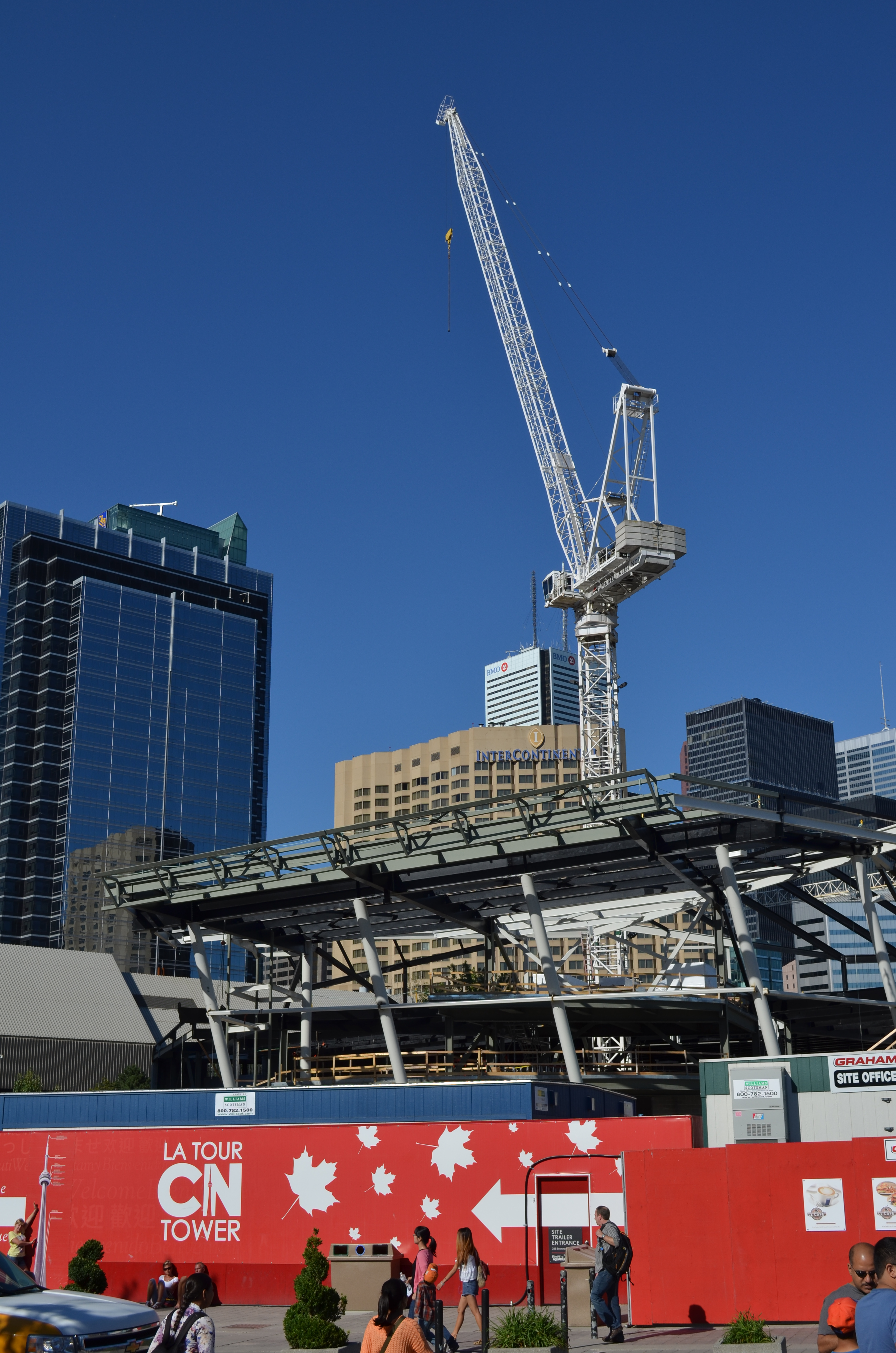 Ripley's Aquarium